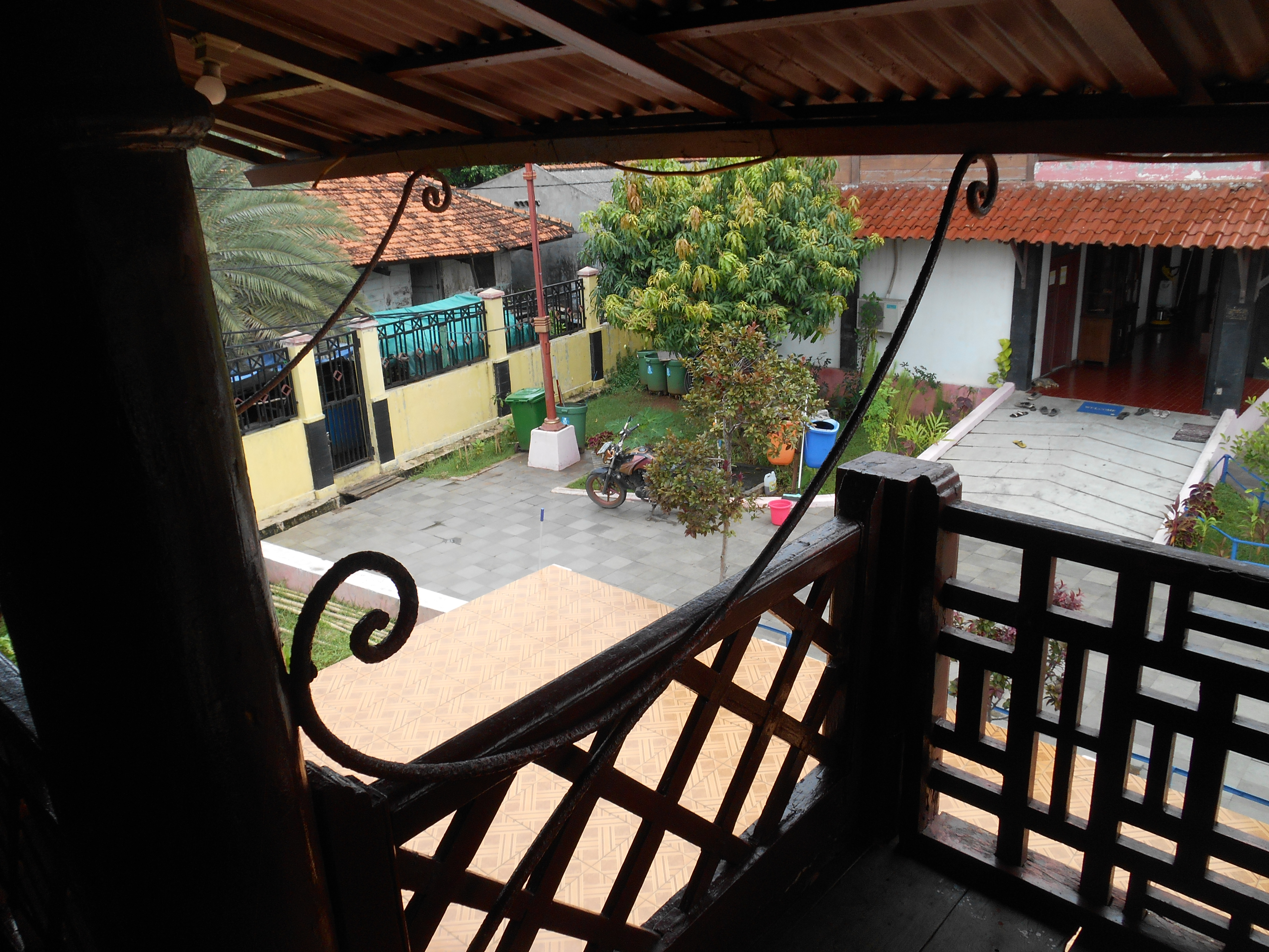 Hiasan dekoratif besi yang dibuat melengkung pada rumah si pitung